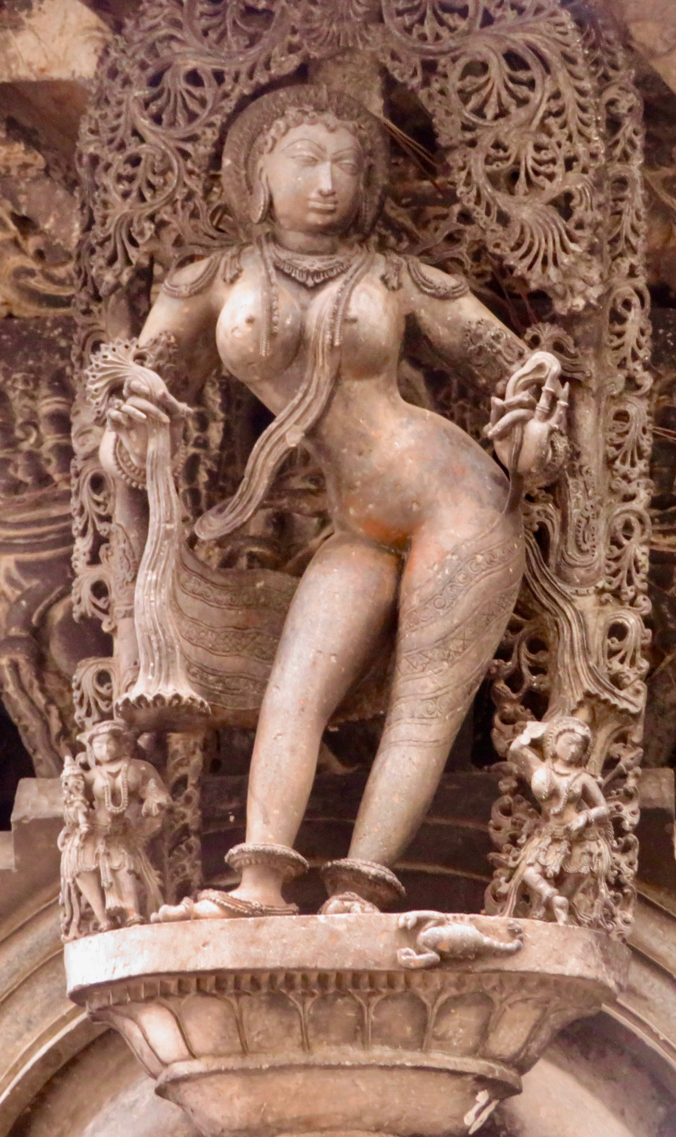 The Chennakeshava Temple is an early 12th-century Vaishnavism Hindu temple in the Hassan district of Karnataka state, India. Featuring intricate Hoysala artwork and squares-circles vastu design per Hindu texts, the temple was built on the banks of a river in Belur by King Vishnuvardhana. The temple is active, drawing numerous Hindu devotees every day. It is also a major tourist attraction with being one of the finest examples of sophisticated reliefs and stone carving that show in exquisite detail various forms of Vishnu and Lakshmi, along with reverential iconography of major Hindu gods and goddesses such as Shiva, Parvati, Durga, Saraswati, Ganesha, Kartikeya, Rama, Krishna, Hanuman and others. The temple features a water tank as well as a large courtyard for performance art festivals.